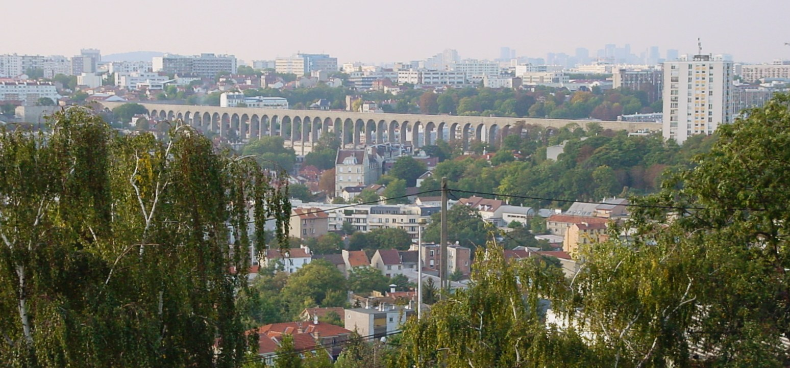 Aqueducs de la Vanne, The photograph was taken from the "Jardin Panoramique Départemental", Cachan, Cachan is located 5 km south of Paris.